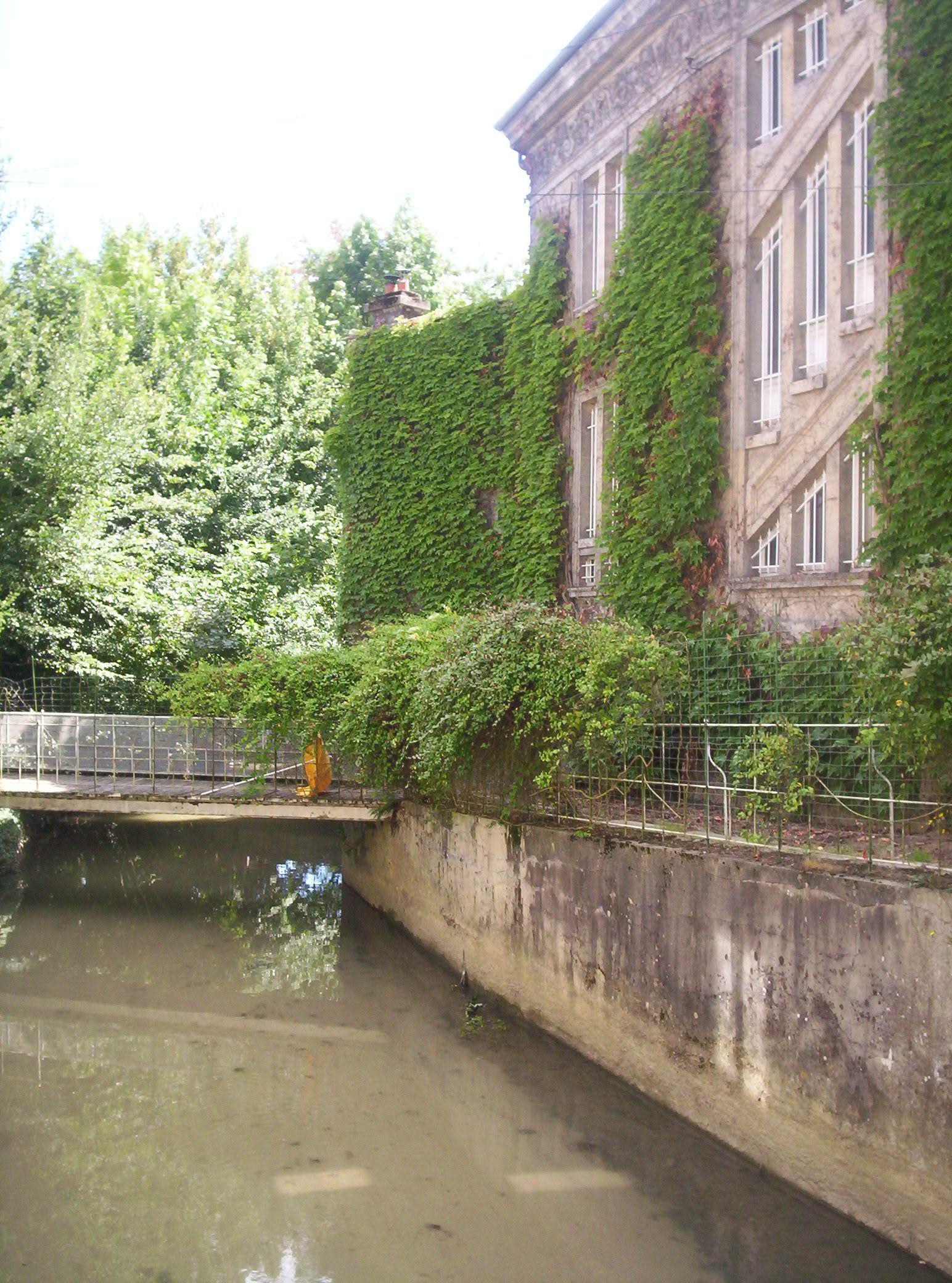 Le Cubry - Épernay